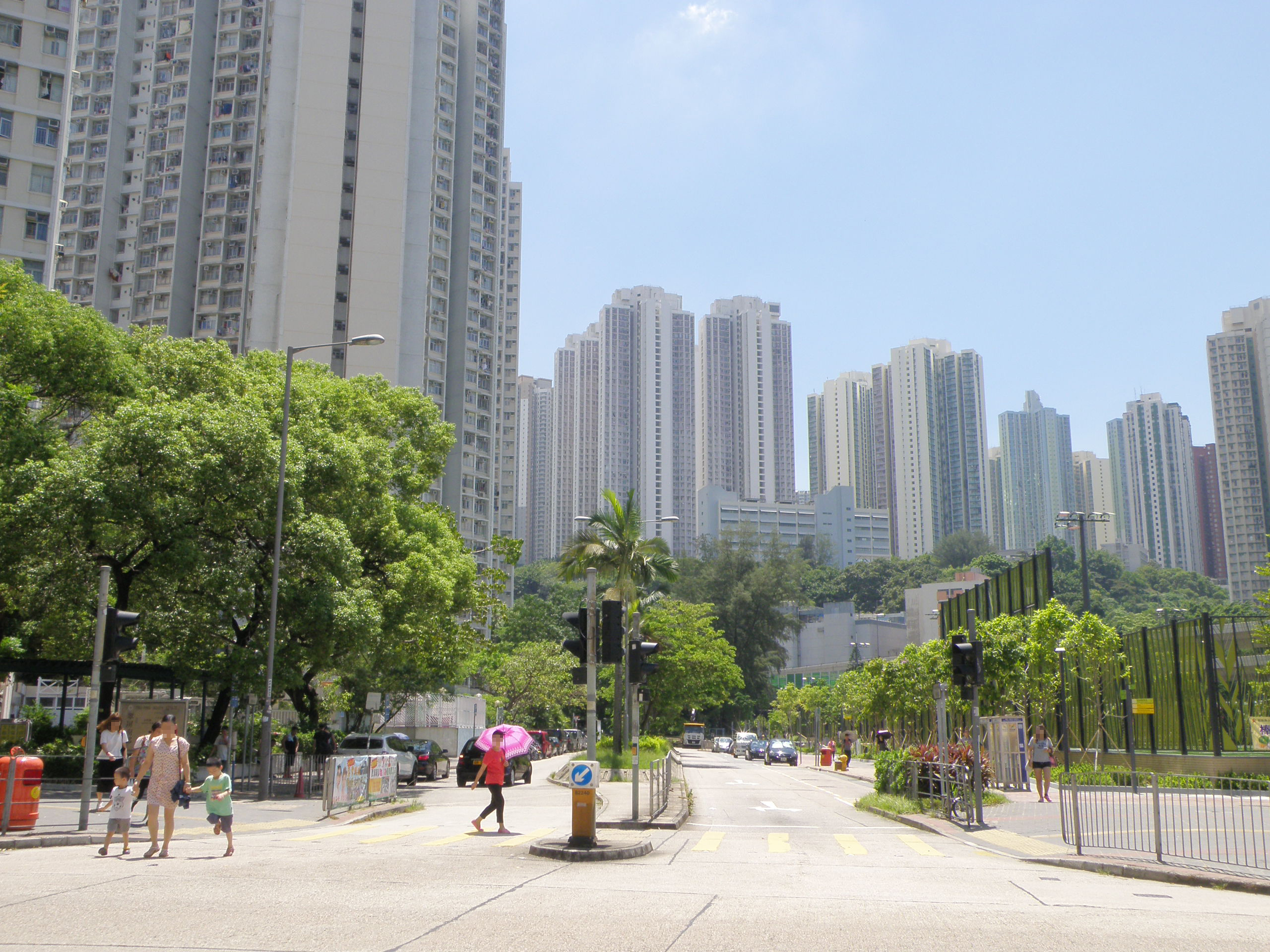 Kai Lim Road in Kwun Tong, Hong Kong.